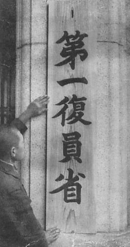 Establishment of First Ministry for the Demobilized